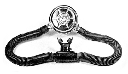 First Beuchat regulator named Souplair